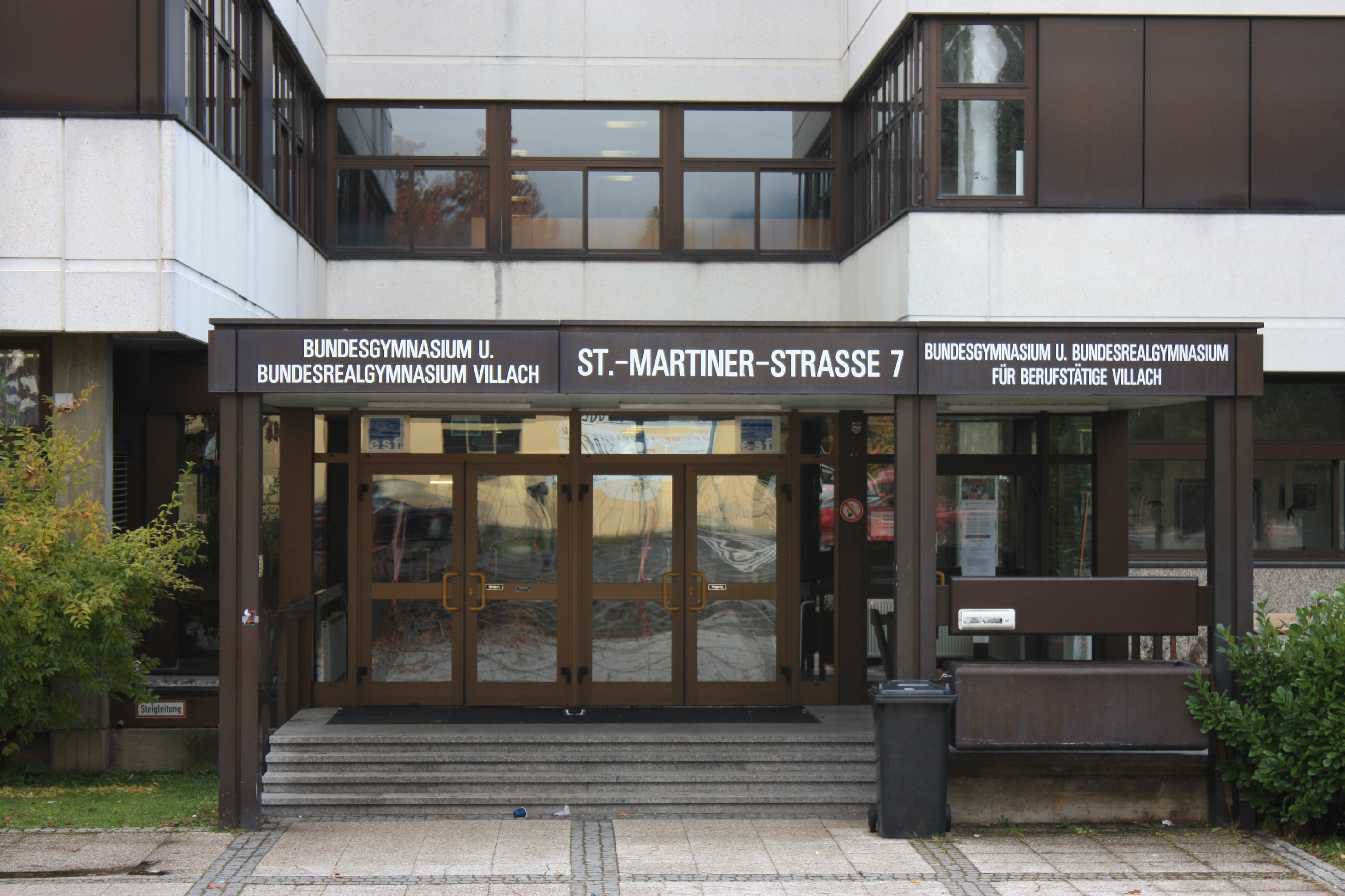 Gymnasium Locality: St Martiner Straße Community:Villach